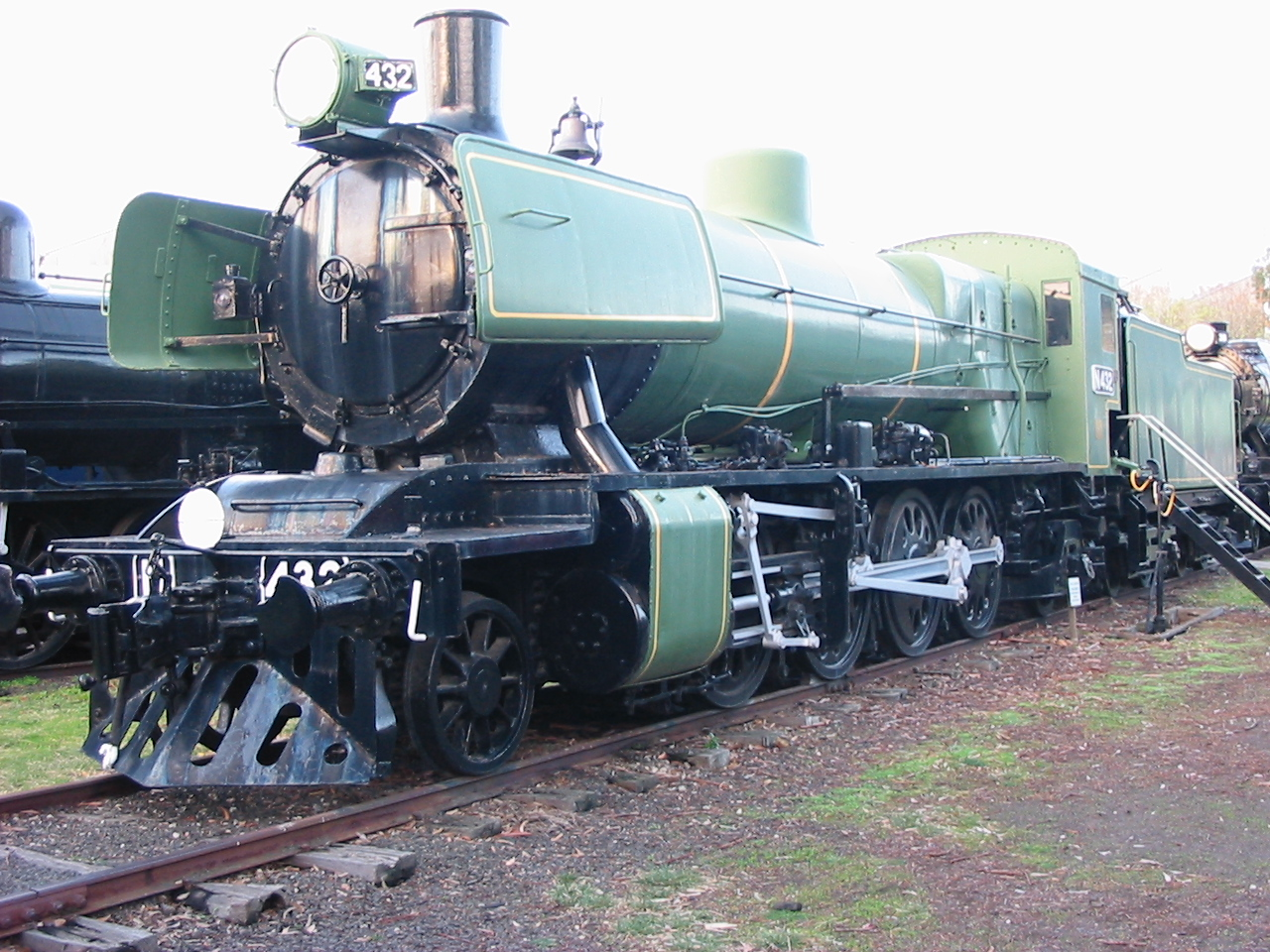 Victorian Railways "N" class 2-8-2 "Mikado" light lines locomotive No. 432. The "N" class was introduced in 1925 as a general purpose branch line locomotive. N432 was one of a further batch of N class locomotives built in 1950-51 as part of the postwar rebuilding of Victorian Railways, and is notable for being the last locomotive to be built by the Victorian Railways' Newport Workshops. It is seen here preserved at the ARHS North Williamstown Railway Museum.